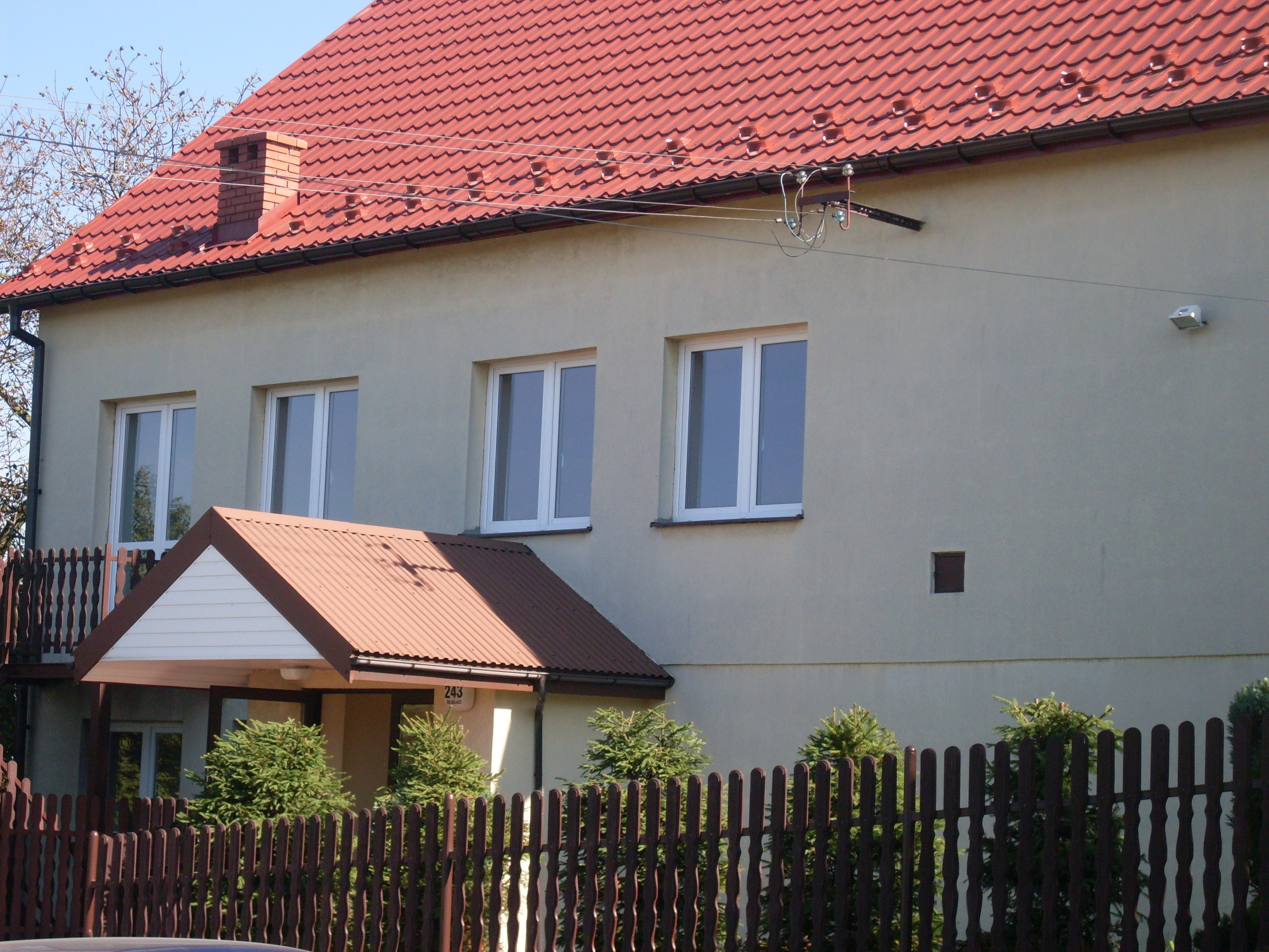 Kingdom Hall Jehovah's Witnesess in Rudno, Poland